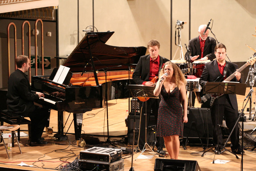 Big Band of the Munich University of Applied Sciences at Concert in the Great Hall of the Ludwig Maximilian University, Munich